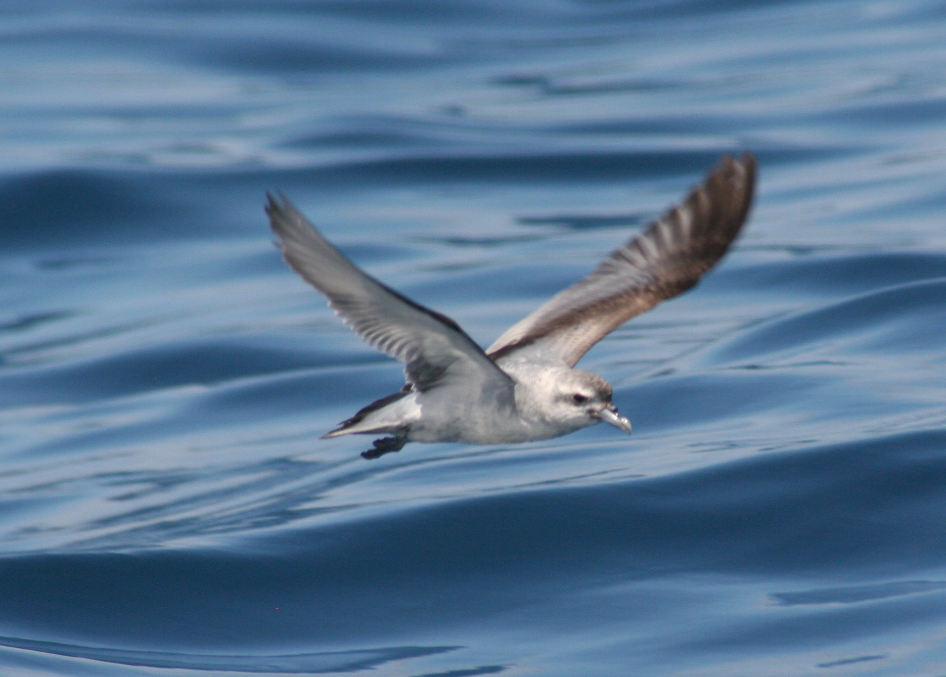 Fairy Prion Pachyptila turtur off Northland Coast, Hauraki Gulf, New Zealand.